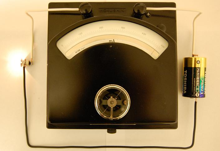 ammeter